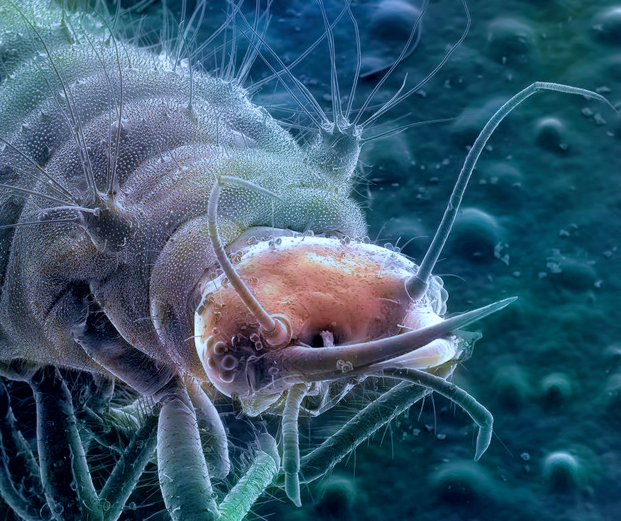 larva on scanning electron microscope